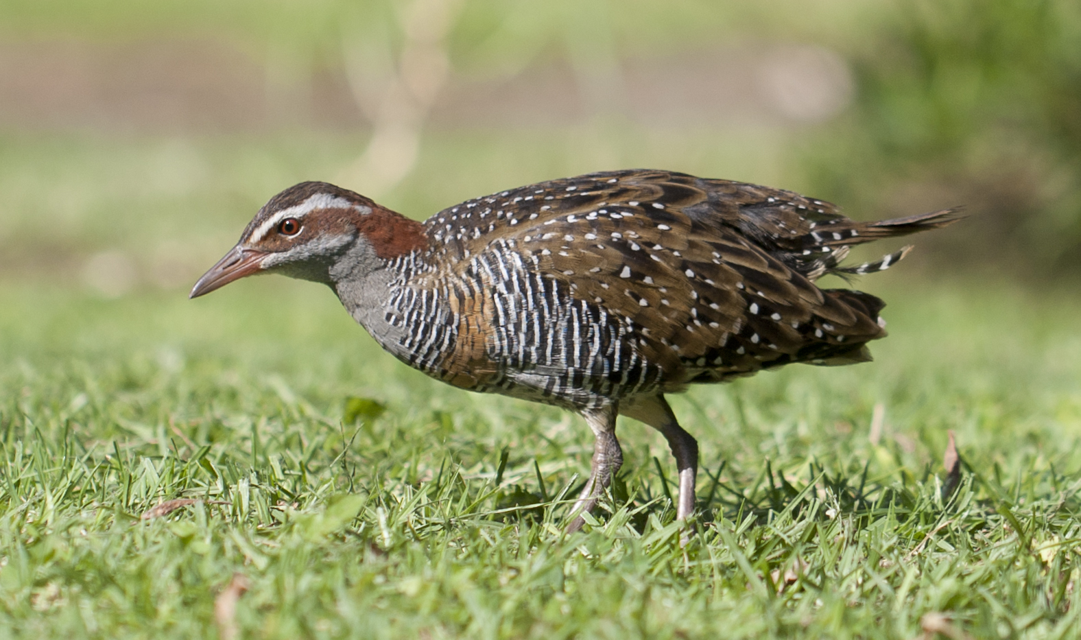 A Buff-banded rail (Gallirallus philippensis) on Lord Howe Island.